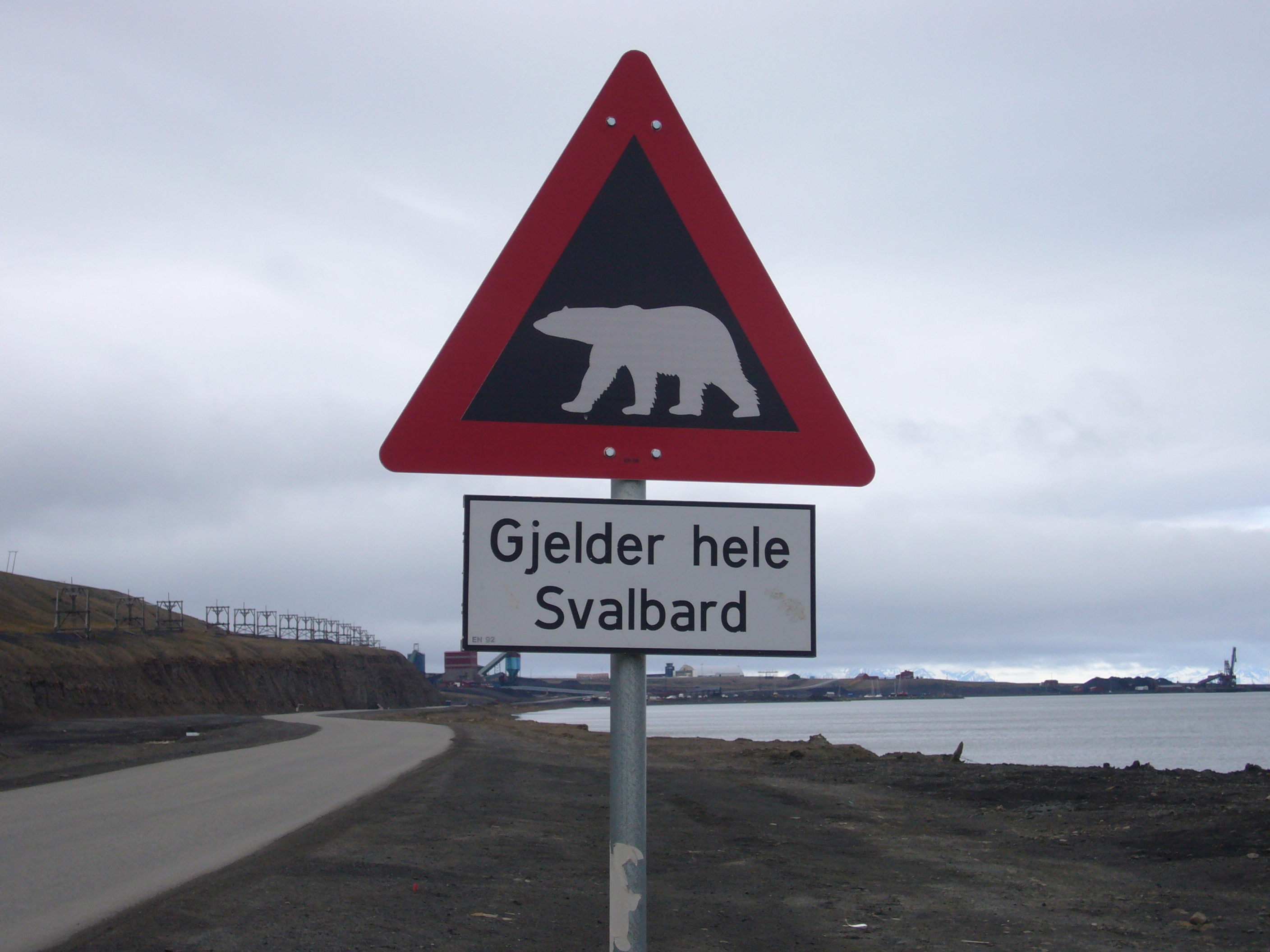 A Norwegian road sign warning about the presence of polar bears. The Norwegian text reads: Applies to all of Svalbard.